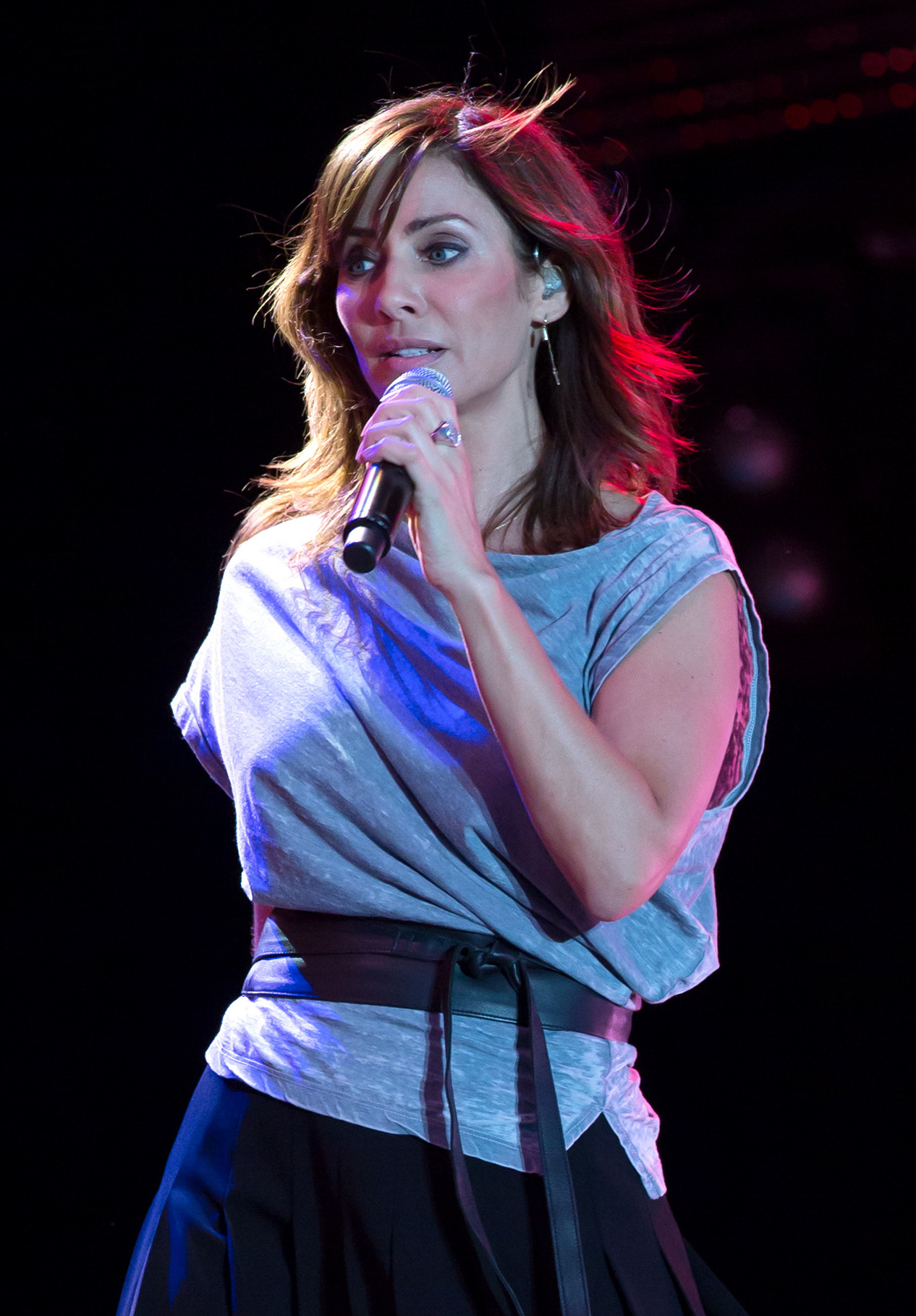 Natalie Imbruglia at Donauinselfest 2015 in Vienna, Austria